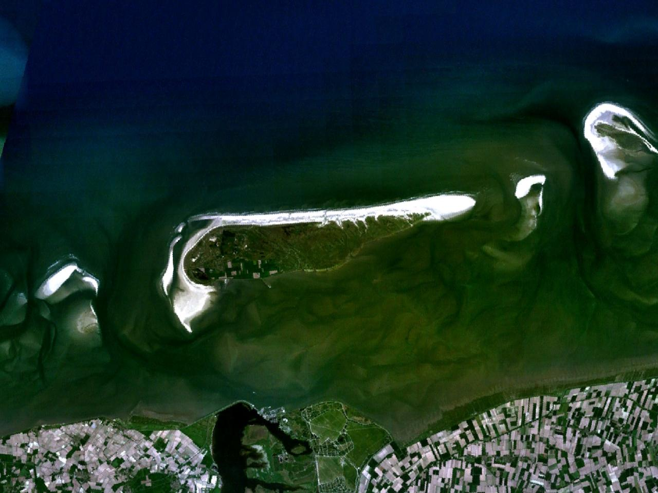 Schiermonnikoog